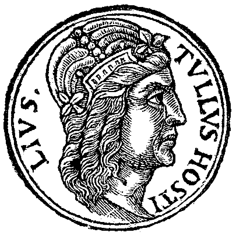 Tulius-Hostilius was the third of the Kings of Rome.